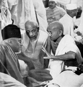 Gandhi in conference with President Maulana Azad and Sardar Patel, A.I.C.C., Bombay, September 1940